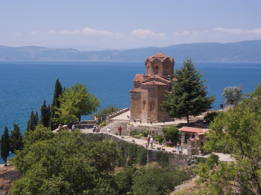 Church of St. John Kaneo and the Ohrid Lake. Ohrid, Republic of Macedonia